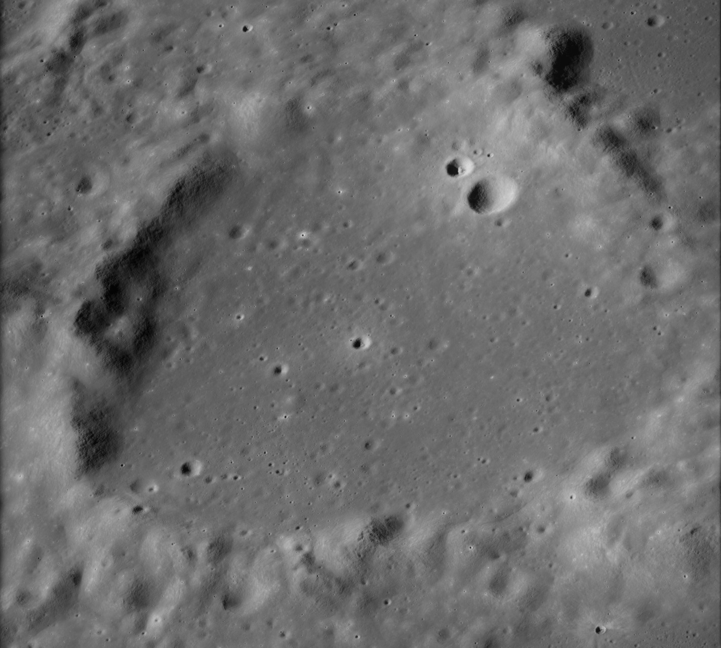 Oblique view of Franz crater, facing south, on the moon. Taken by Apollo 17 panoramic camera.